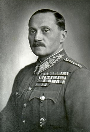 portrait Dezső László